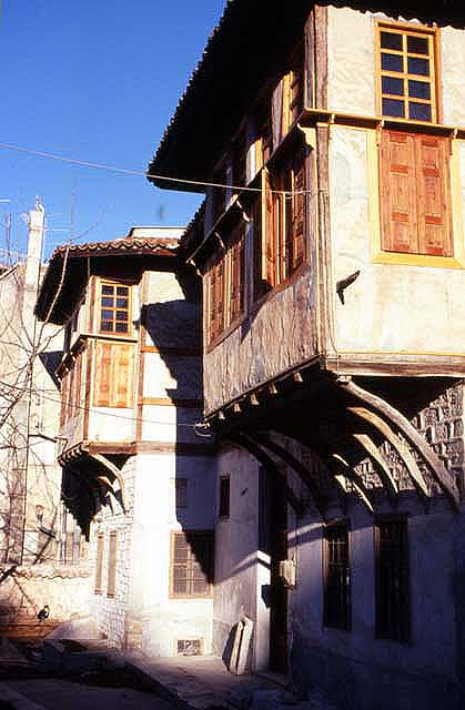 External view of Vourkas Mansion, image from the Vourkas Mansion, Kozani, West Macedonia, Greece